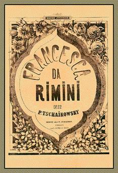 Franceska di Rimini by Pyotr Tchaikovsky - title